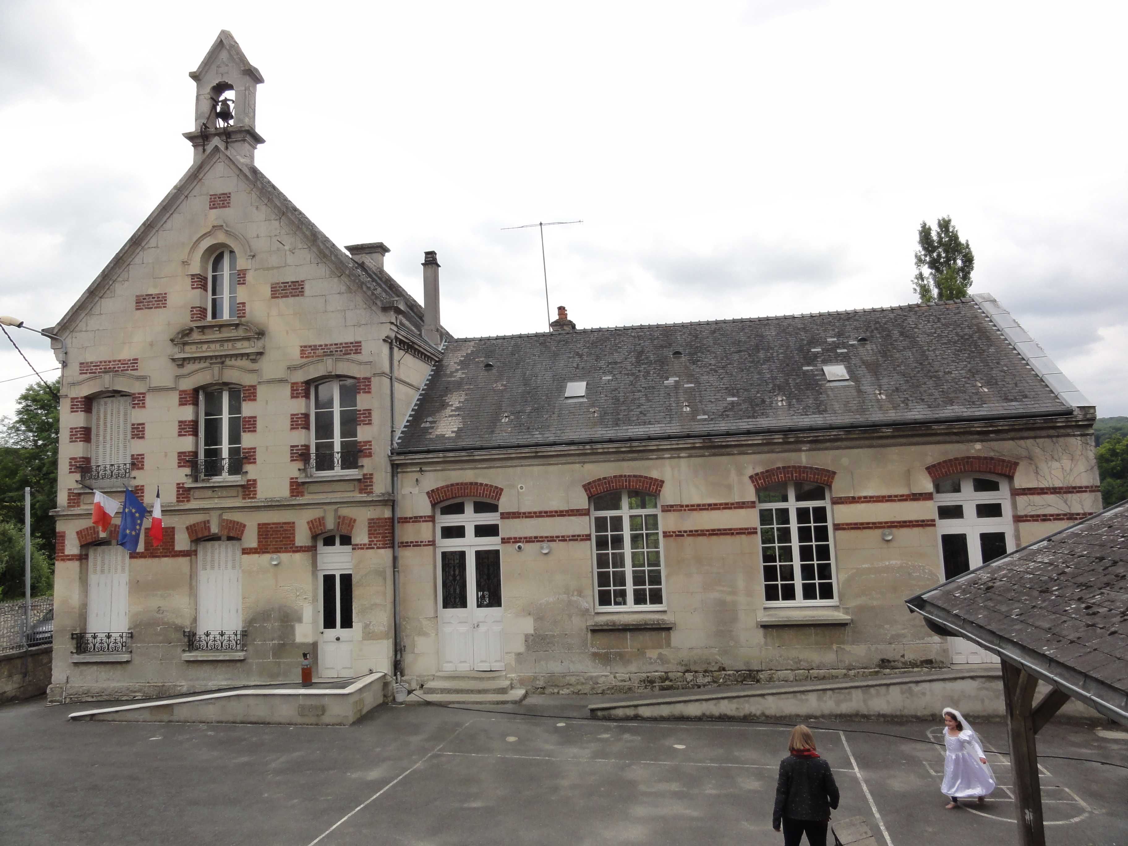 Taillefontaine (Aisne) mairie-école